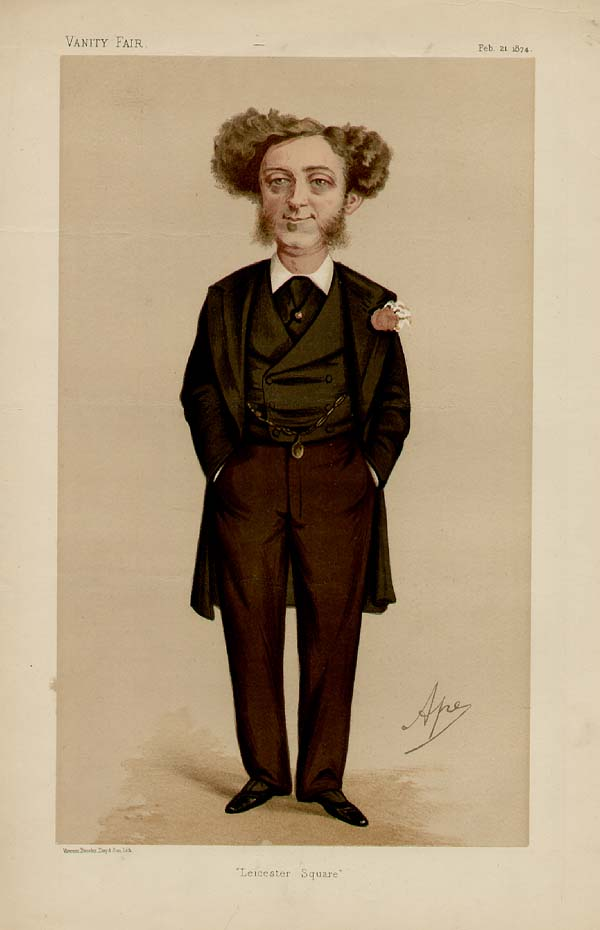 Caricature of Albert Grant MP. Caption read "Leicester Square".